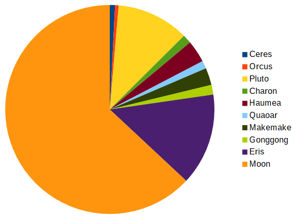 Masses of the most likely dwarf planets and Charon compared to the Moon (as of 2019). Sedna is not included because its mass is unknown.